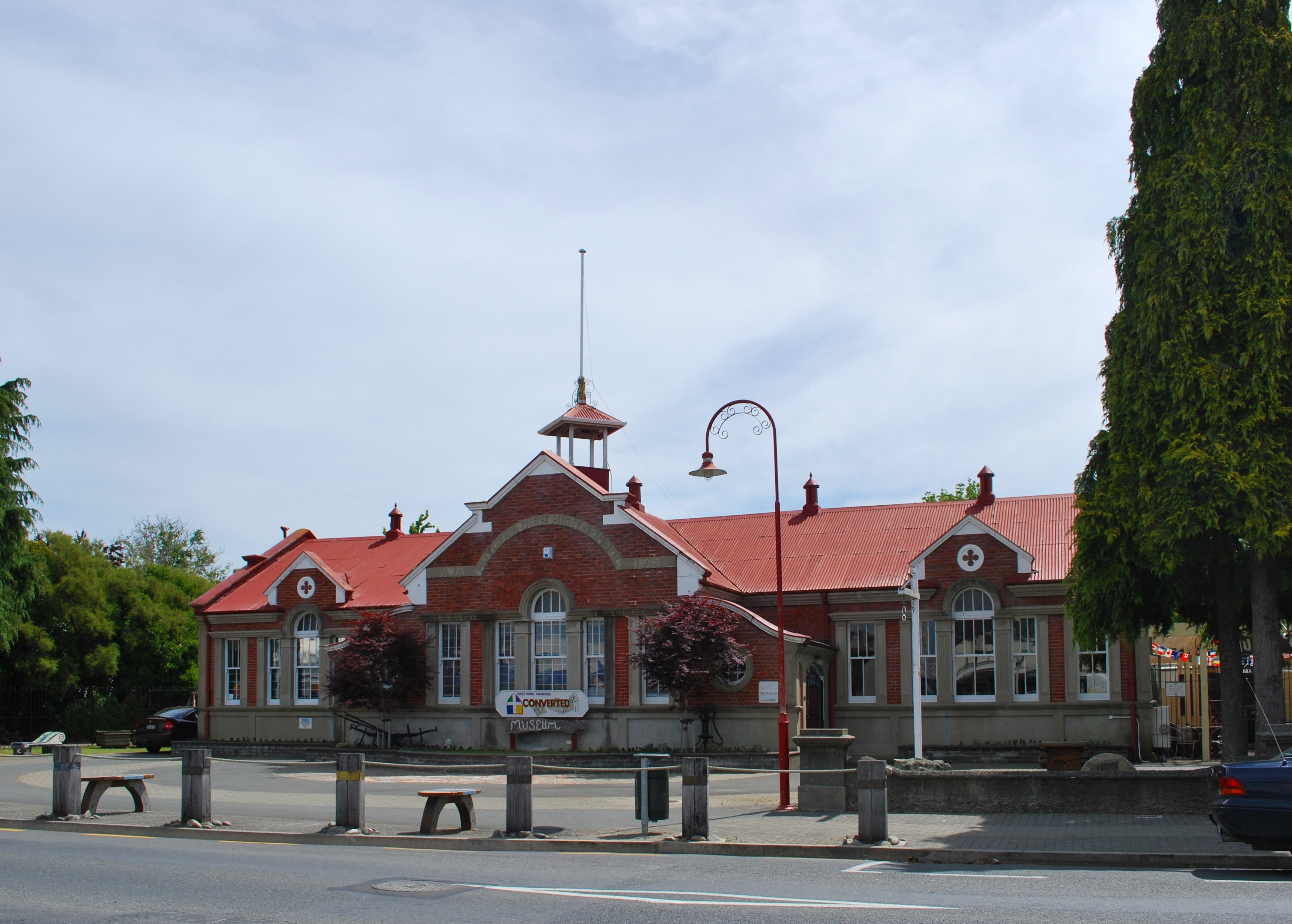 Museum in Motueka, New Zealand, located in the former Motueka & District High School